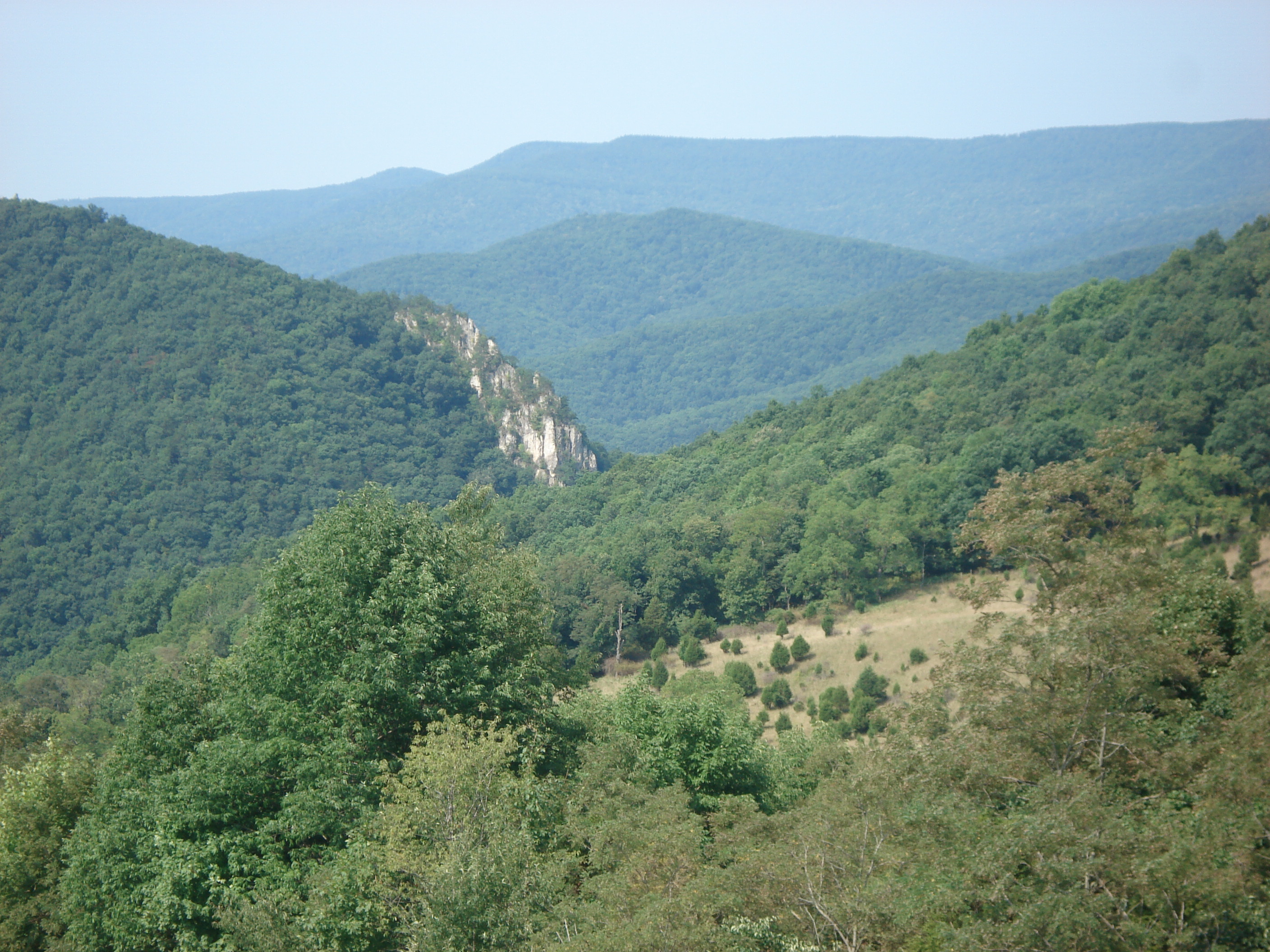 Judy Rocks, Germany Valley, West Virginia, USA